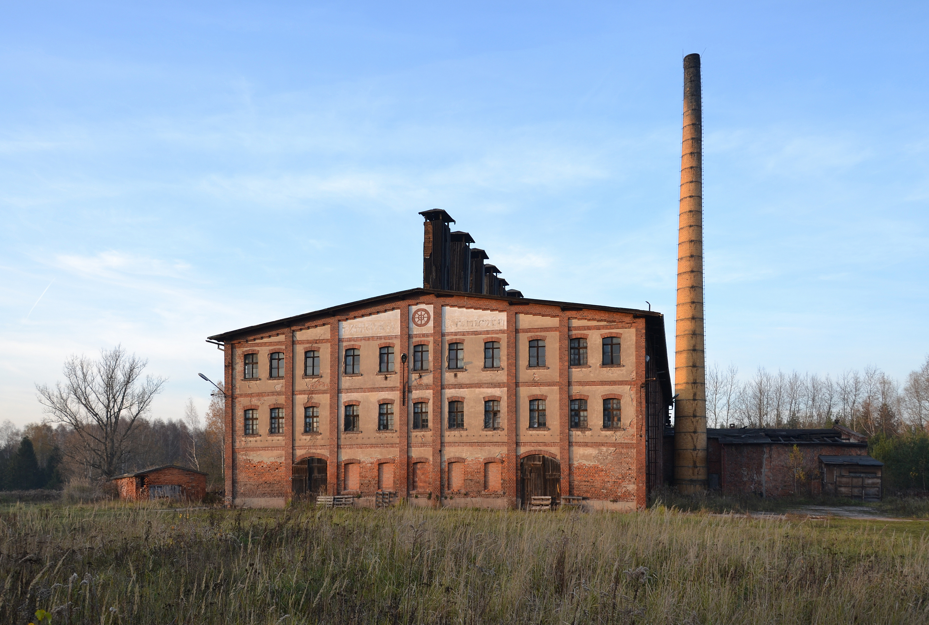 Old factory in Szydłów (Schiedlow, Goldmoor), Upper Silesia